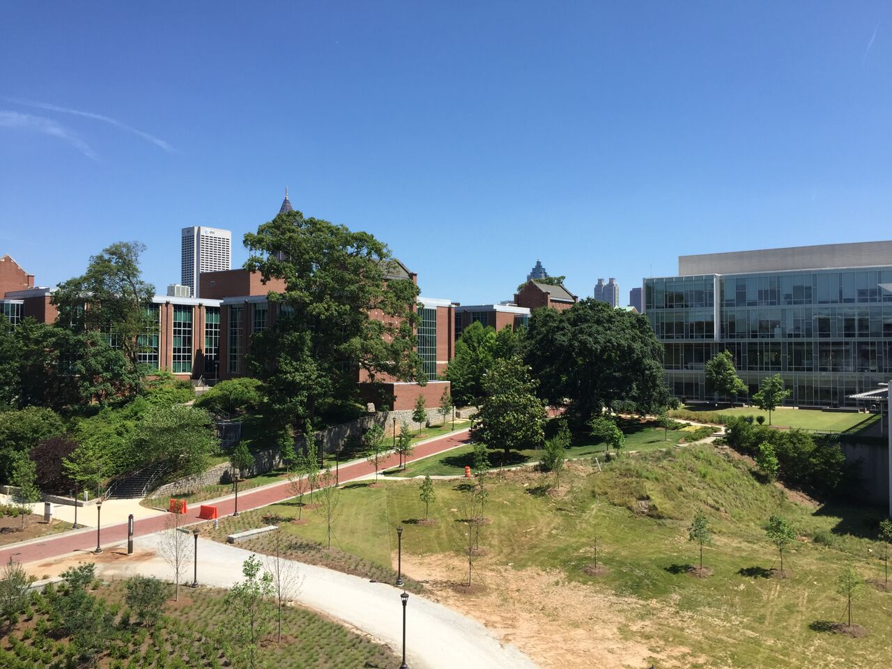 Site of the former Neely Nuclear Research Building at the Georgia Institute of Technology